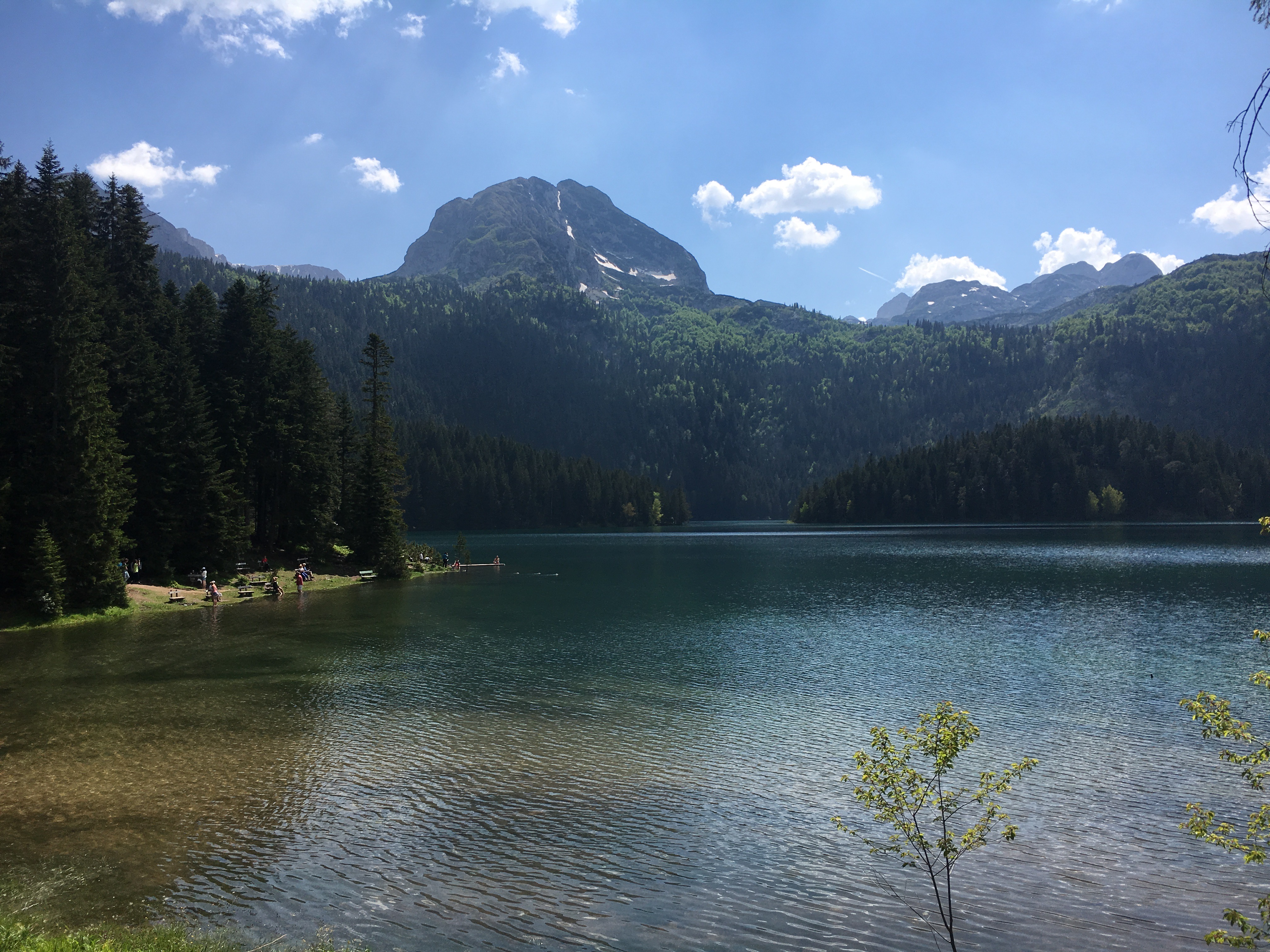 Crno Lake in the summer time (Montenegro, Durmitor National Park)